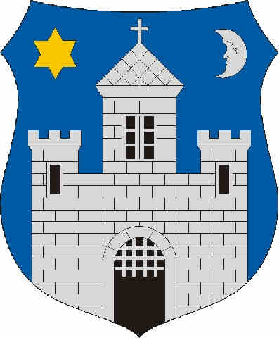 Coat of Arms of Vasvár, Hungary